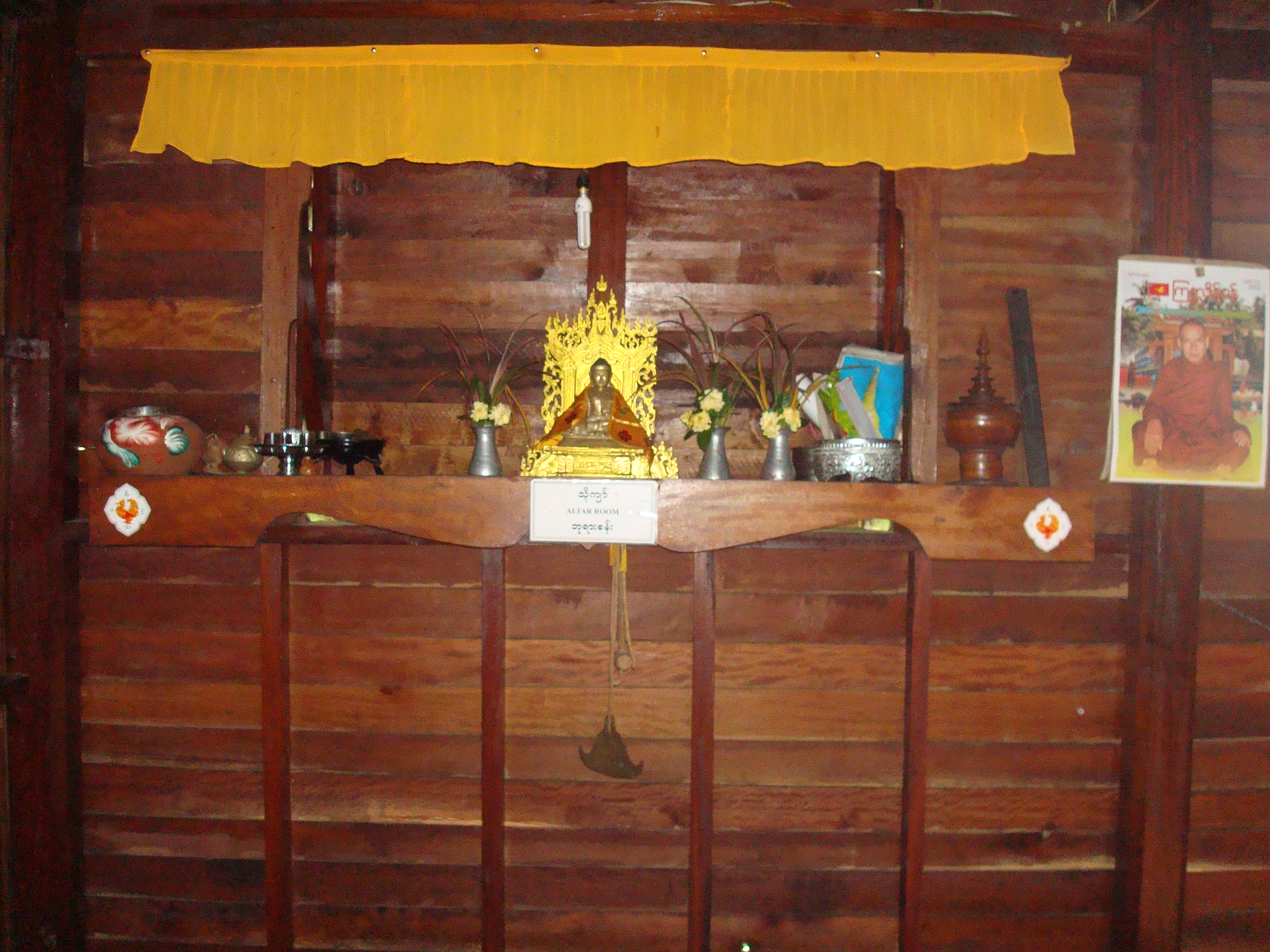 A Buddhist Altar at Yangon's National Races Village (Tai Yin Thar Kyay Ywar) - Tai Yin Thar Kyaw Ywar is a park with replicas of famous places in Myanmar. It also displays houses and traditional cultures of Myanmar ethnic groups.မြန်မာဘာသာ: တိုင်းရင်းသားကျေးရွာ သည် မြန်မာနိုင်ငံအတွင်းရှိ ပြည်ထောင်စုသား တိုင်းရင်းသားတို့၏ ယဉ်ကျေးမှု၊ ထုံးစံဓလေ့များကို ပုံဖေါ်တည်ဆောက်ထားသည့် ဗဟုသုတရဖွယ်၊လေ့လာဖွယ် ယဉ်ကျေးမှုဥယျာဉ် ပင်ဖြစ်သည်။ တိုင်းရင်းသား ရိုးရာအိမ်လေးများ ရှိသည်။ ရိုးရာ အစားအစာများ၊ တိုင်းရင်းသားဝတ်စုံများ ဝတ်၍ ဓာတ်ပုံအလှရိုက်ခြင်းများ ပြုလုပ်နိုင်သည်။ မြန်မာနိုင်ငံတစ်နံတစ်လျားရှိ အထင်ကရ အဆောက်အအုံများ၊ စေတီပုထိုးများ၊ လမ်းမကြီးများ၊ တိုင်းရင်းသား လူမျိုးများ၏ နေထိုင်မှုဘဝကို ဖော်ကျုးသော တိုင်းရင်းသား အဆောက် အအုံများ၊ ရုပ်တုများ ရှိသည်။